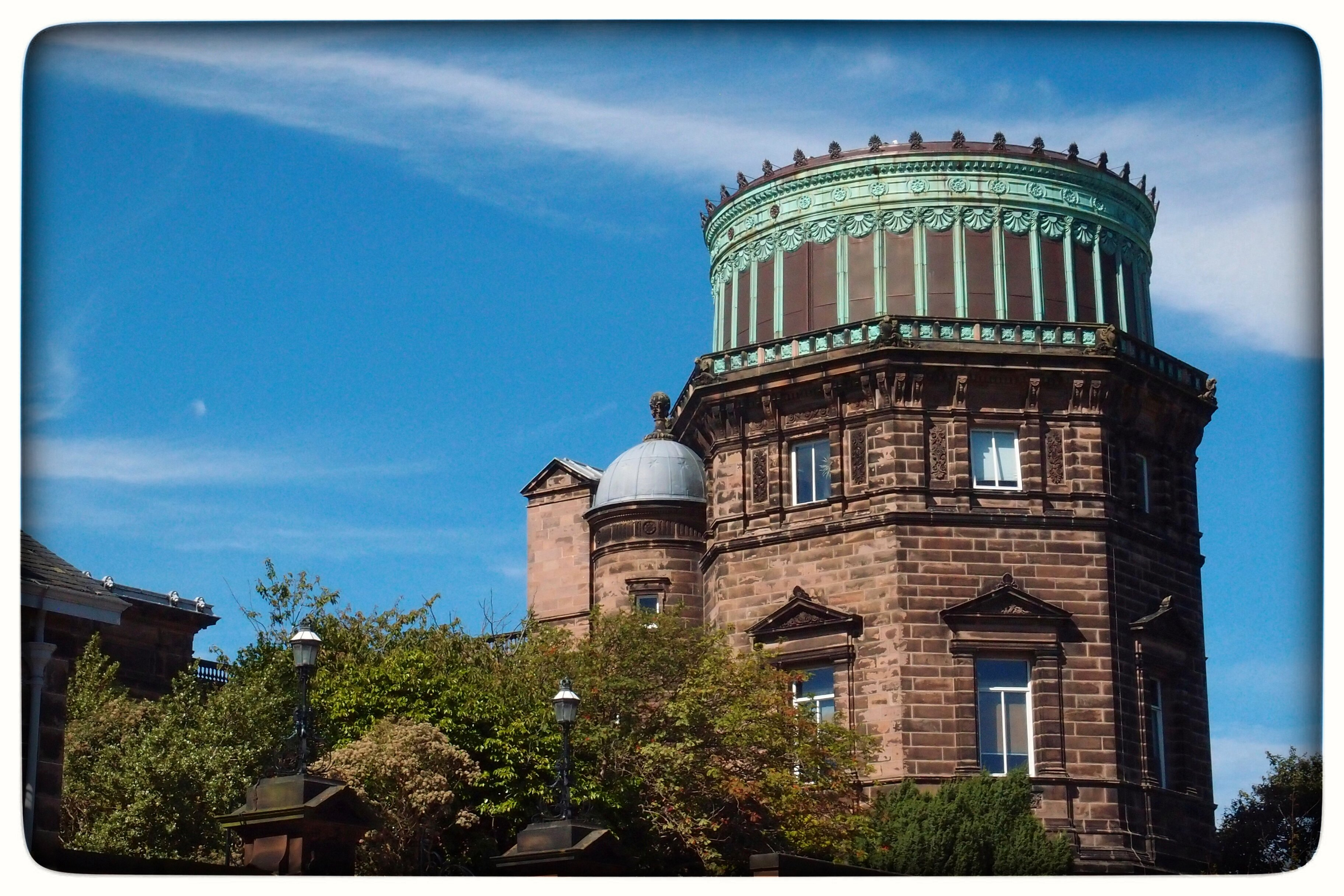 Edinburgh